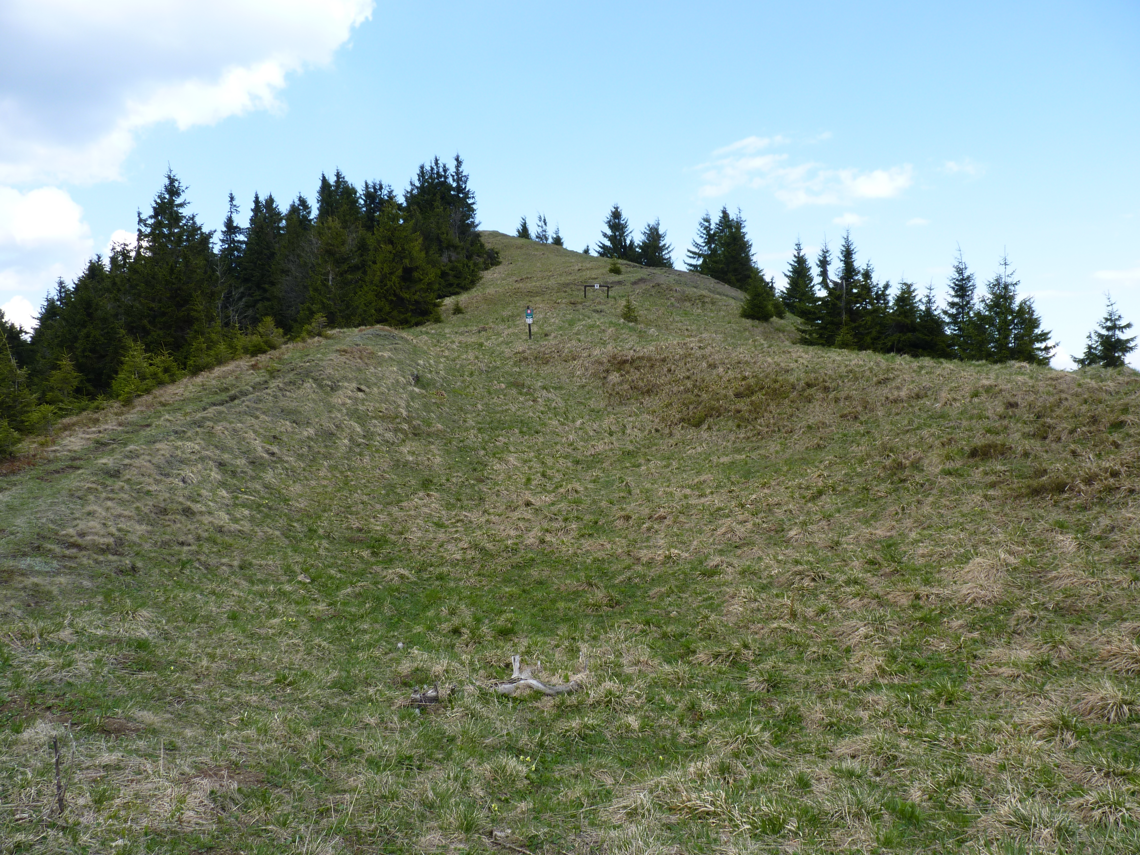 Great Fatra, Slovakia